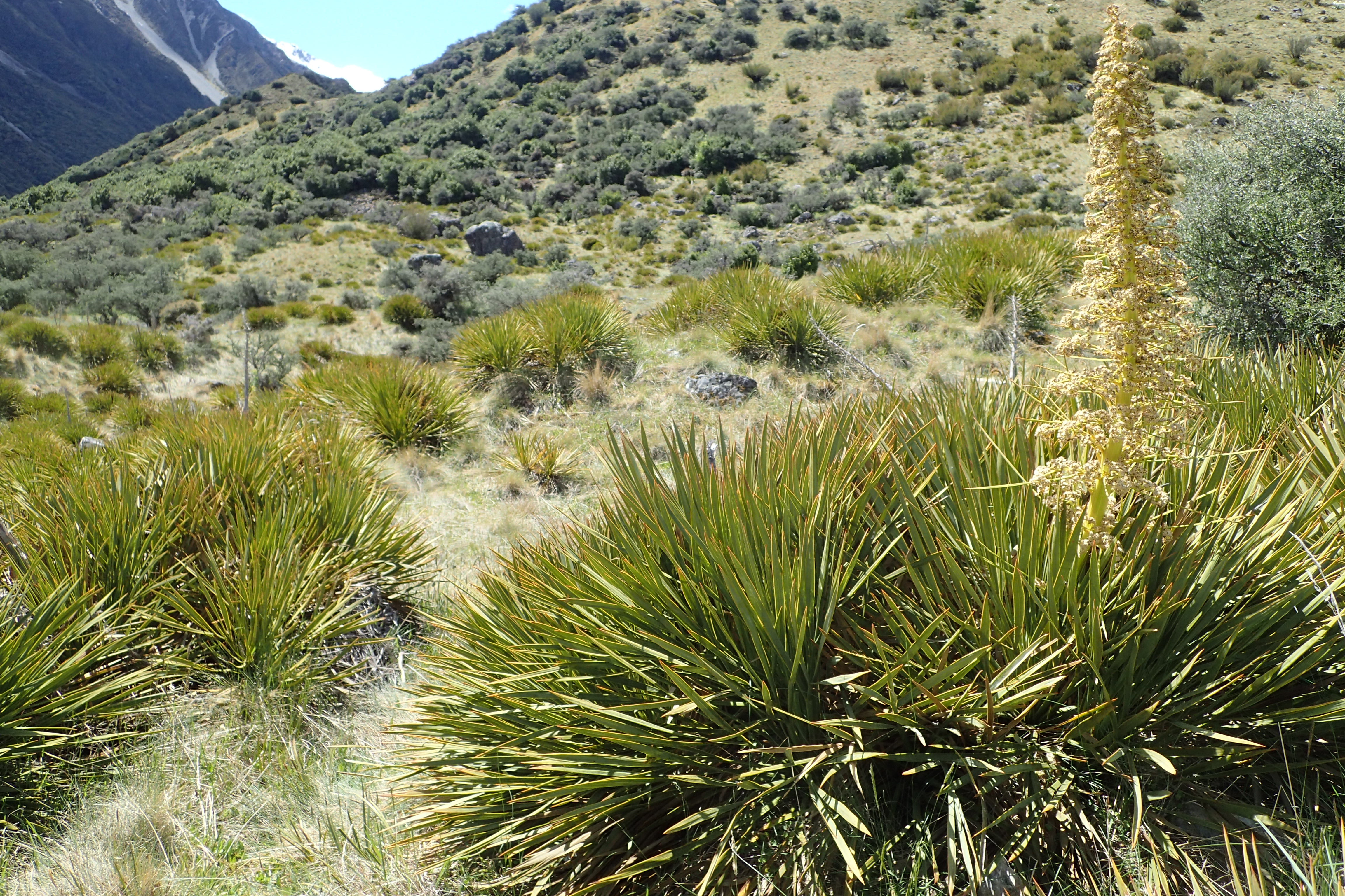 Aciphylla aurea in Hooker Valley Mt Cook, Canterbury (New Zealand)